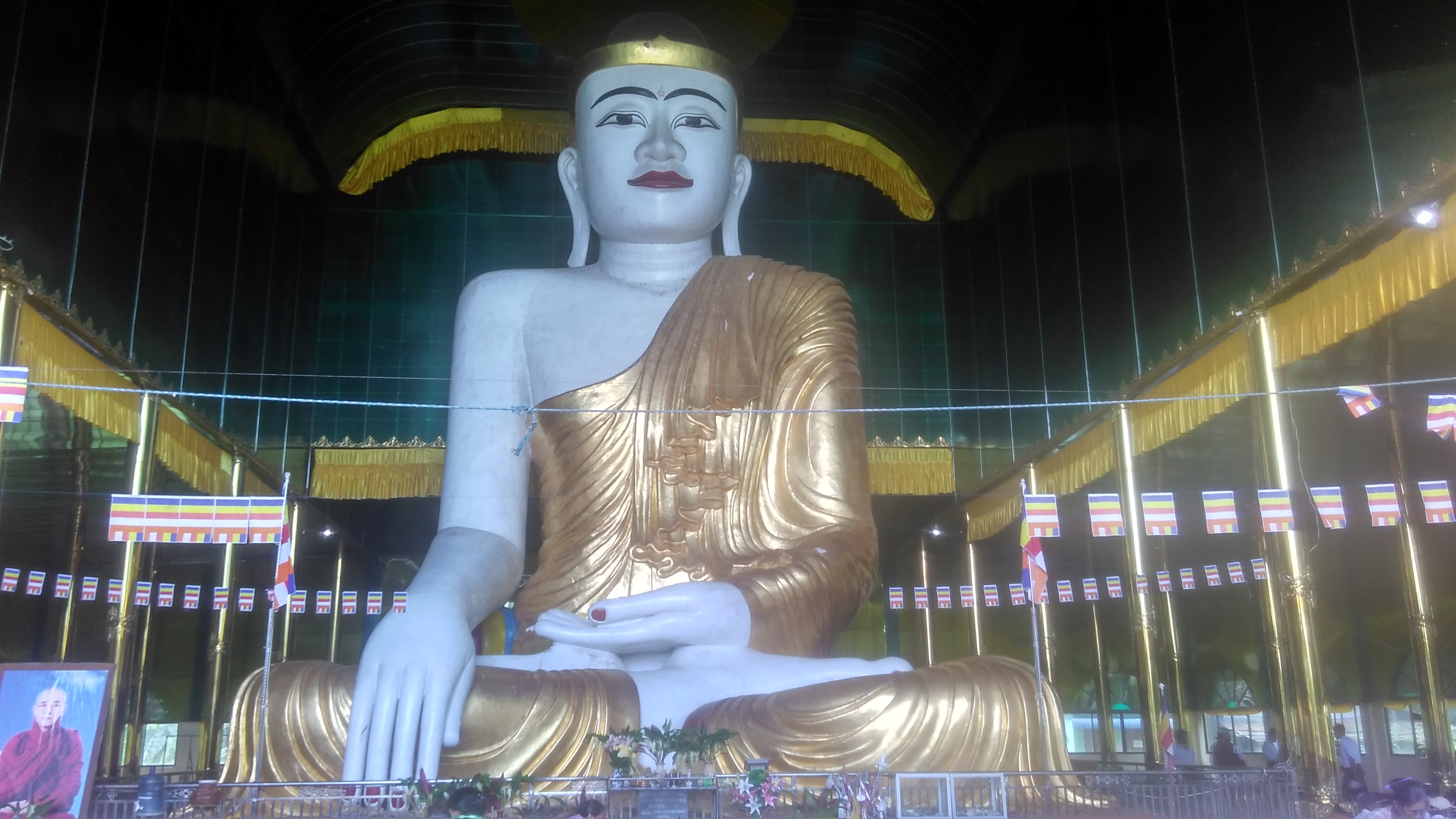 Ngar Htap Kyee Pagoda (KAWA) မြန်မာဘာသာ: ငါးထပ်ကြီးဘုရား။ ပဲခူးတိုင်းဒေသကြီး၊ ကဝမြို့တွင် တည်ရှိသည်။